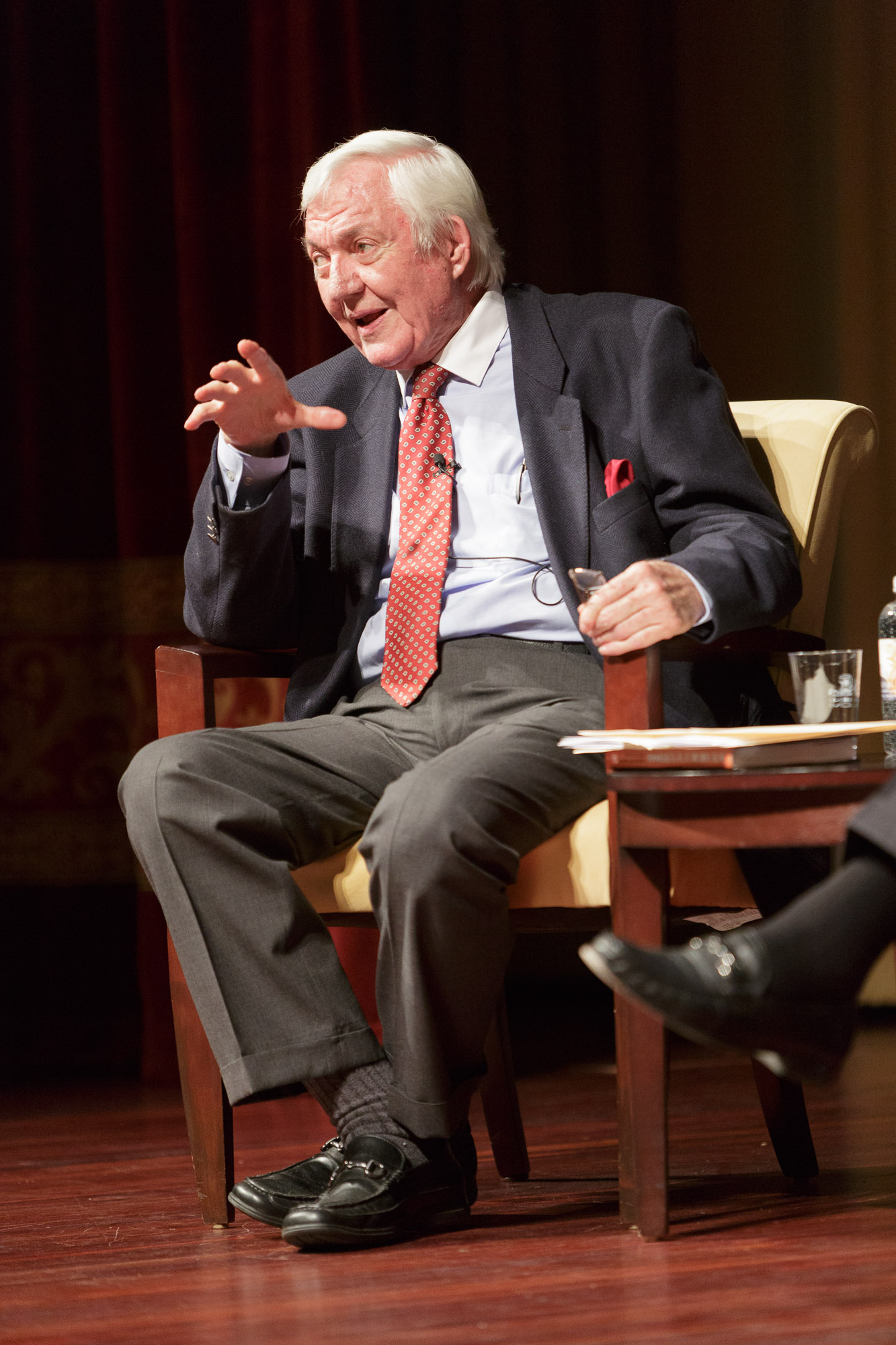 Producer and author Terry Irving moderates a panel discussion on the role of the television journalism during the Vietnam War. Panelists included journalist and former Nightline anchor Ted Koppel; Yasutsune “Tony” Hirashiki, ABC News cameraman (1966–2006) and author of "On the Frontlines of the Television War: A Legendary War Cameraman in Vietnam;" and journalist Barrie Dunsmore. The event was held at the National Archives in Washington, DC, on December 7, 2017. NARA photo by Jeff Reed.